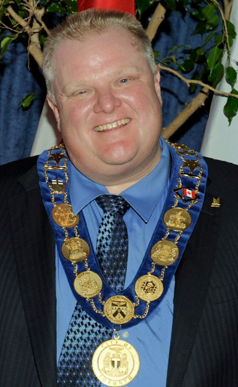 Rob Ford, mayor of Toronto, greeting a nun at the Mayor's 2011 Levee at City Hall. Toronto, Ontario, Canada.